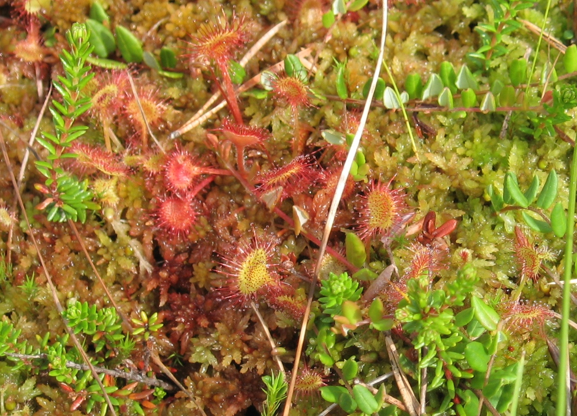 Drosera rotundifolia